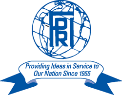 FPRI Logo